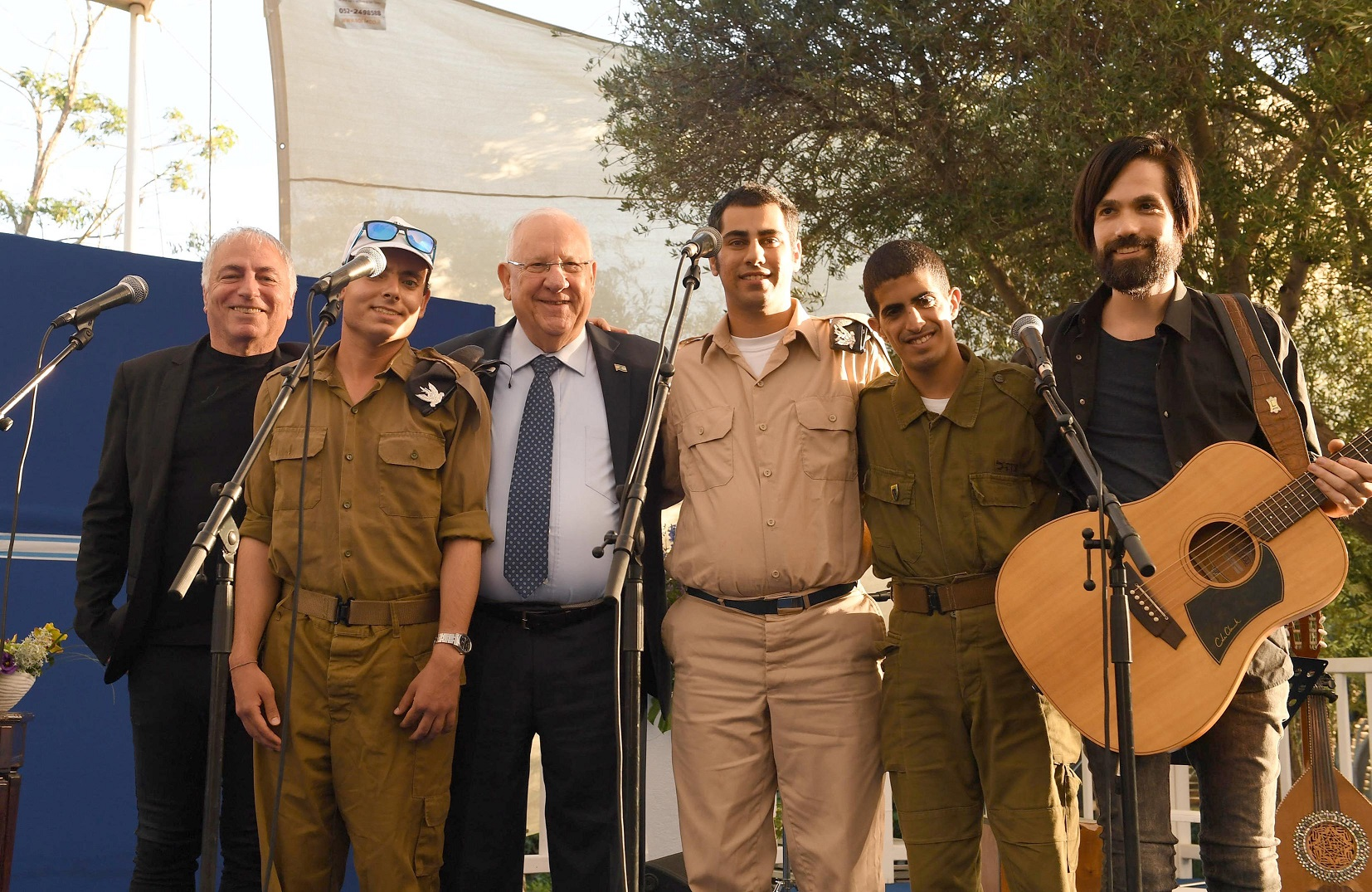 The President of Israel, Reuven Rivlin, presented the "President's Award for Volunteerism" for the year 2016-2017, at a ceremony at Beit HaNassi. Wednesday, June 28, 2017. Photo Credit: Mark Neyman / GPO.